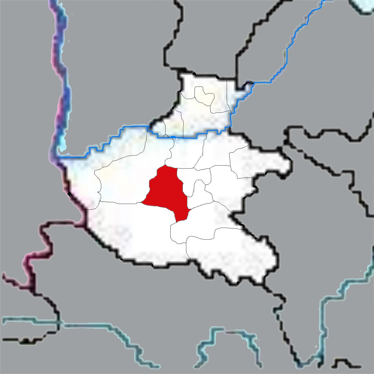 Maps of Henan Province of China